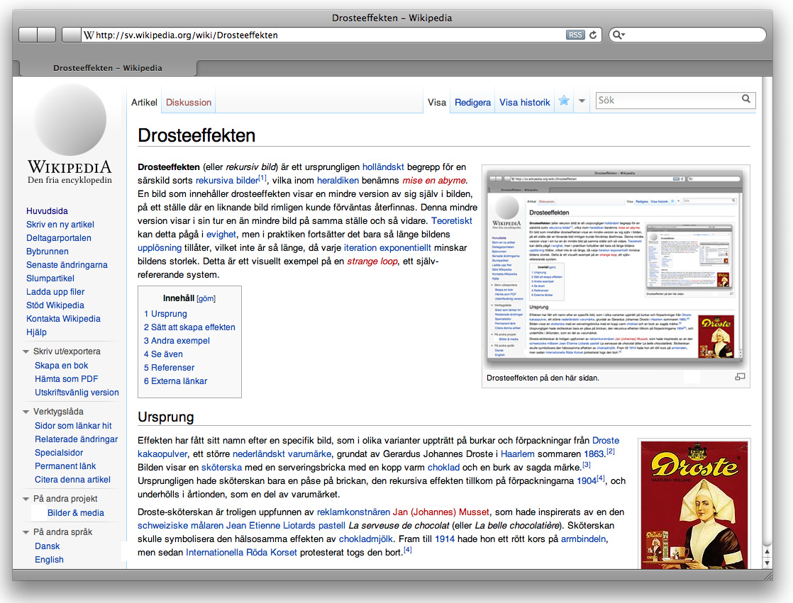 A screen shot for the swedish article about the Droste effect. Non-free copyrighted material excluded.